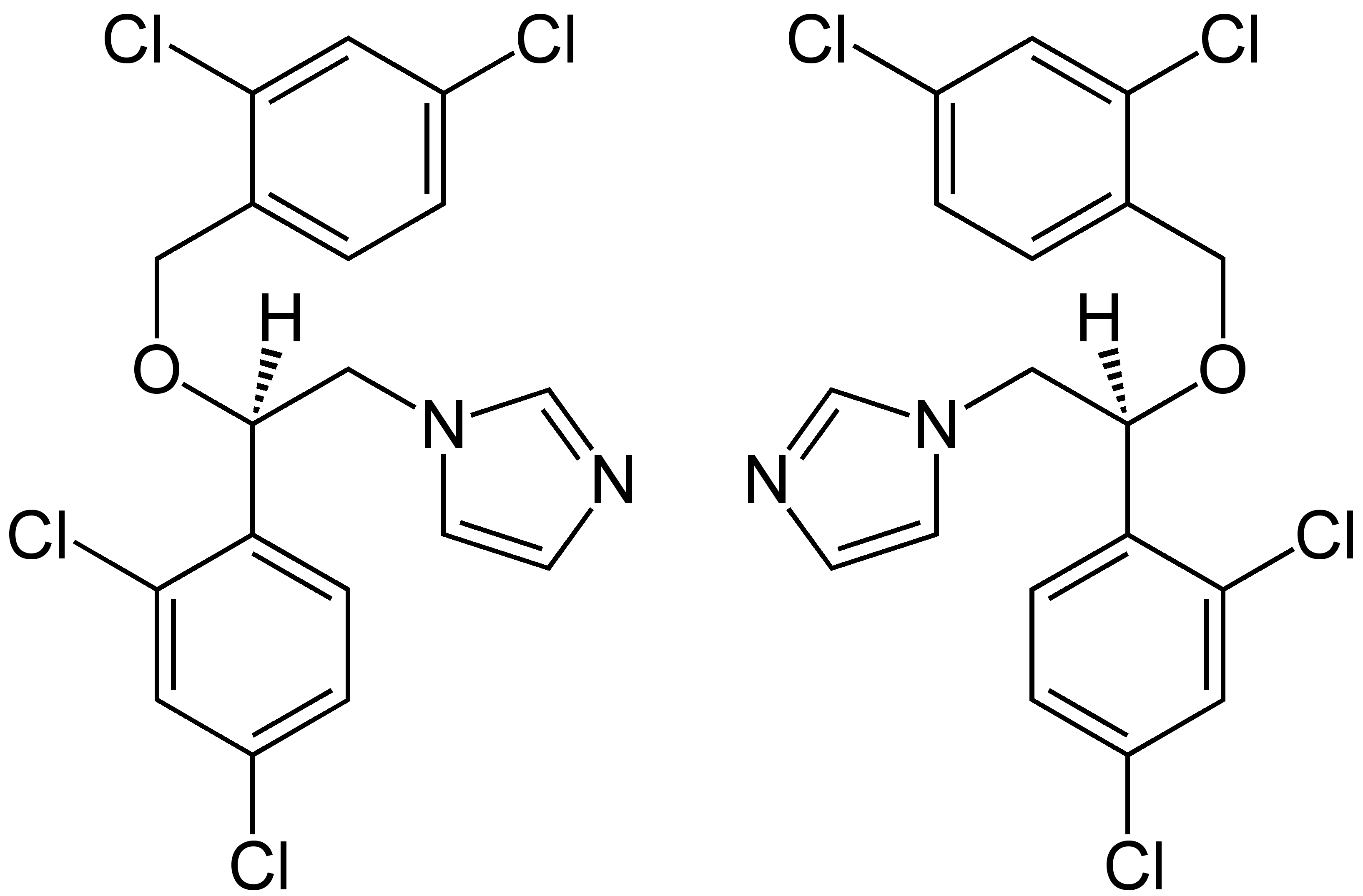 (±)-Miconazole_Enantiomers_Structural_Formulae